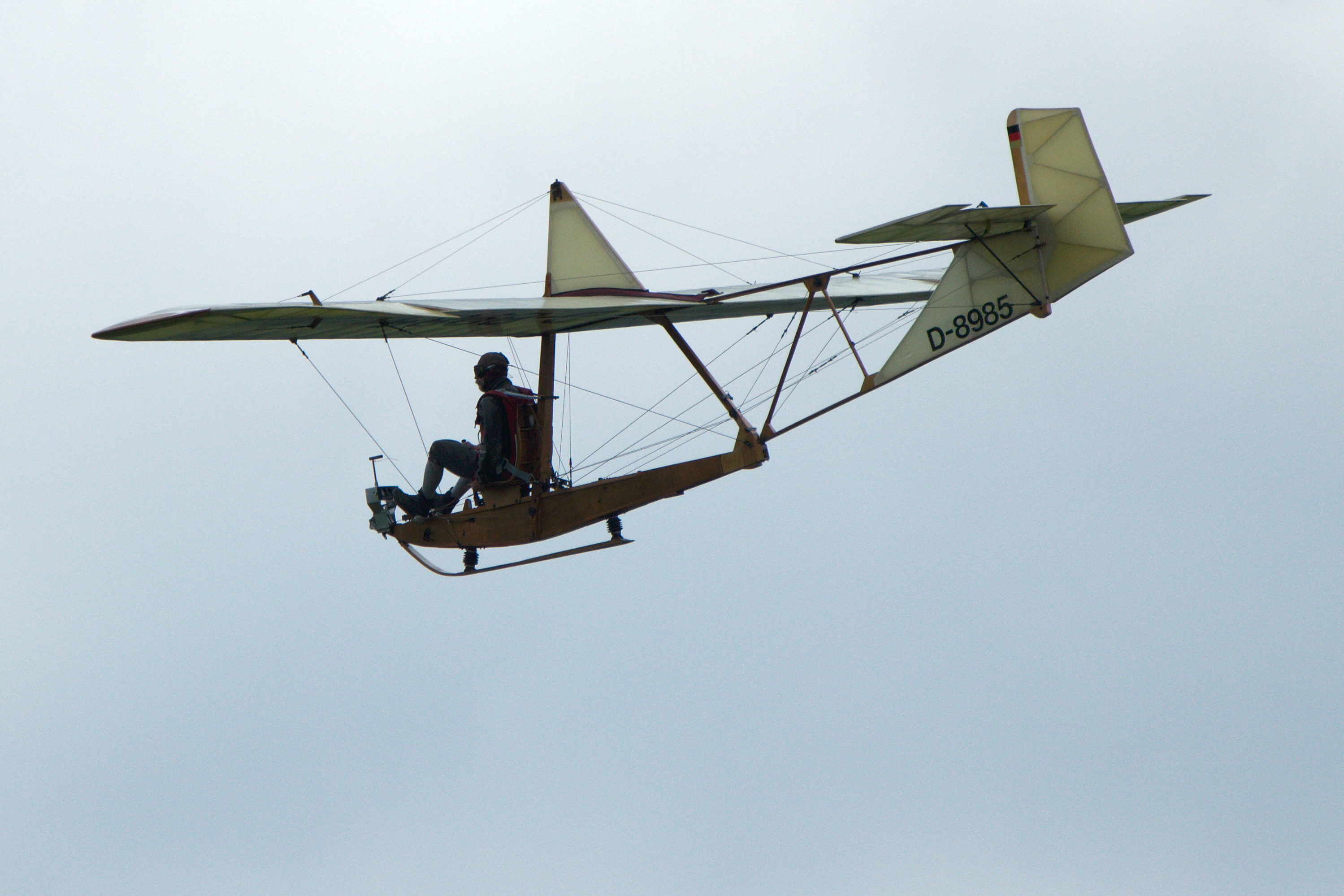 SG38 glider replica at Airpower11